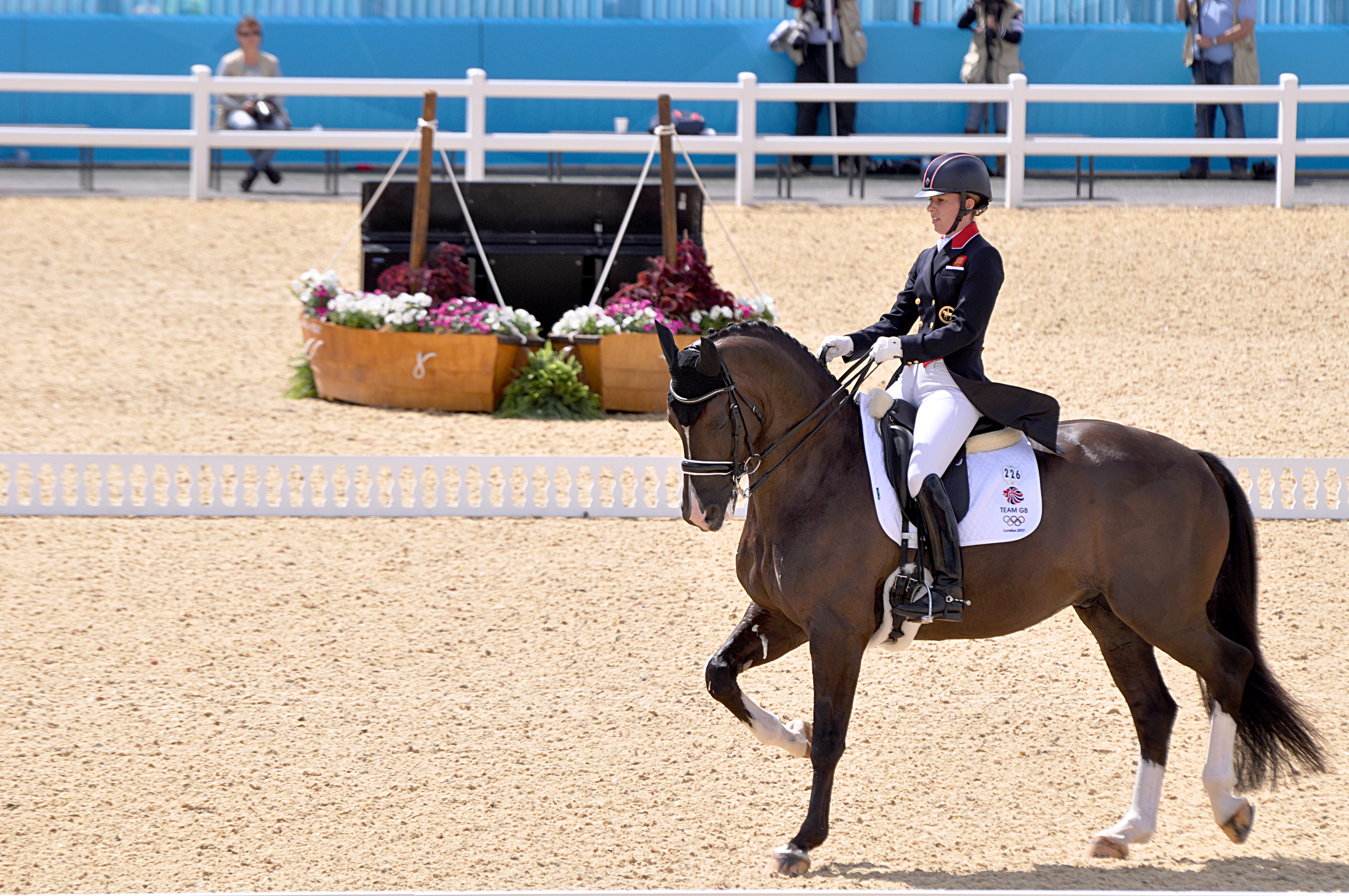 Charlotte Dujardin and Valegro at the London 2012 Olympic Dressage